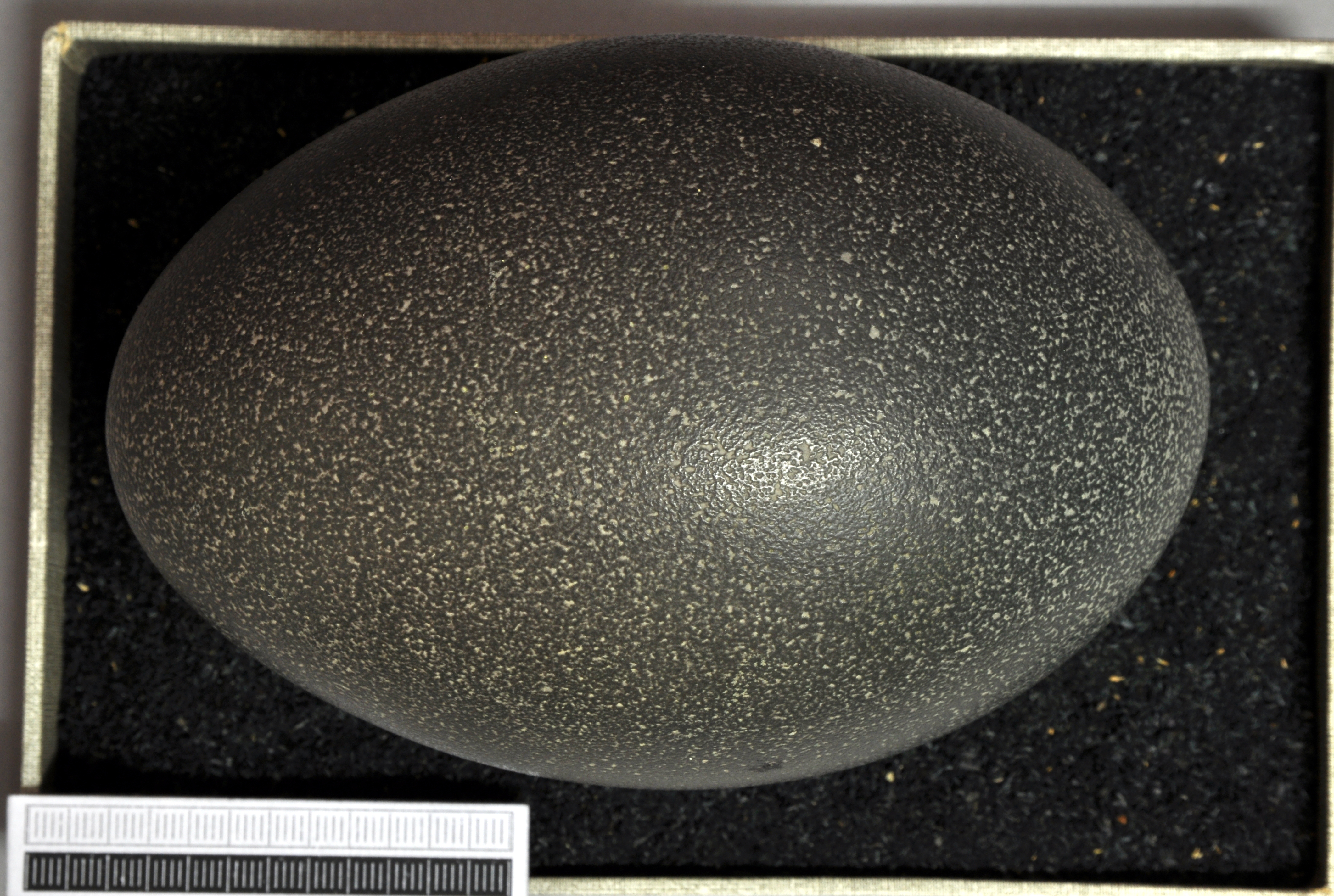 Cassowaries Casuarius , egg, Coll. Museum Wiesbaden